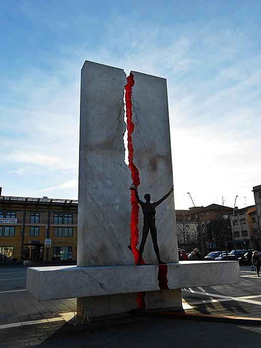 War memorial